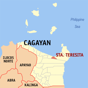 Map of Cagayan showing the location of Santa Teresita